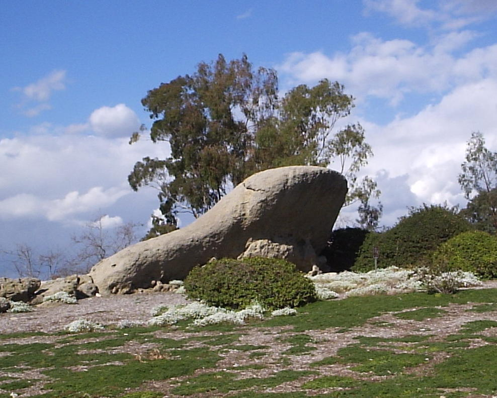 Turtle Rock (geographic feature), Irvine, California